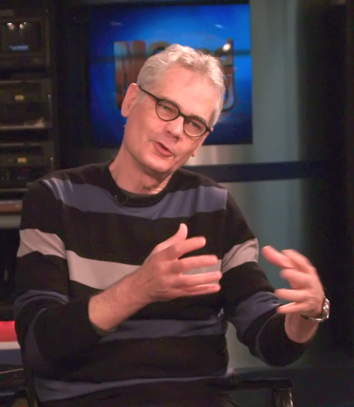 I took this photo of Caleb Deschanel while he was in San Diego promoting the play he was directing. Please acknowledge "Phil Konstantin" as the creator of this photograph.